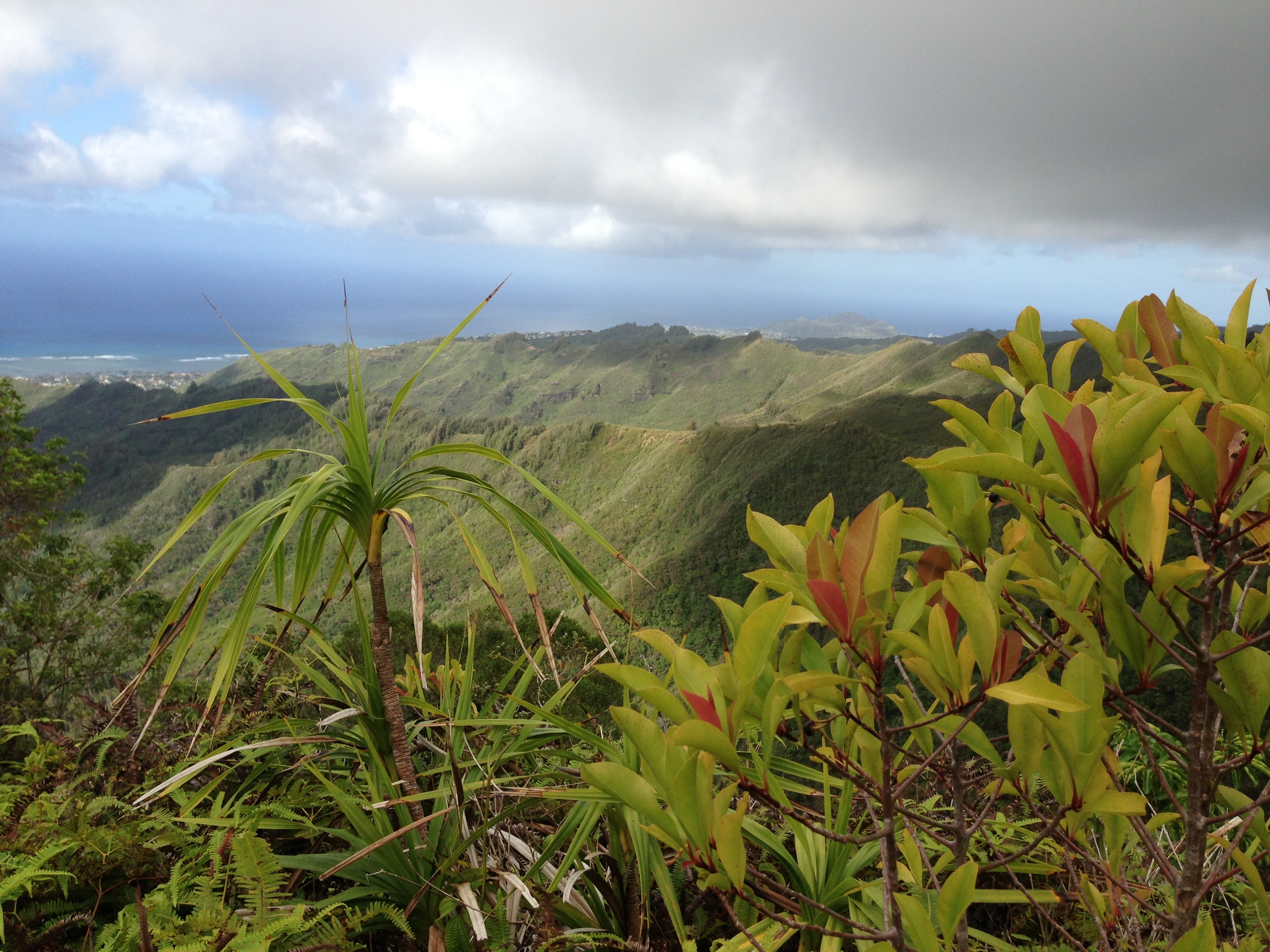 Two plants in foreground are ʻieʻie (Freycinetia arborea, left) and Ardisia elliptica (right).